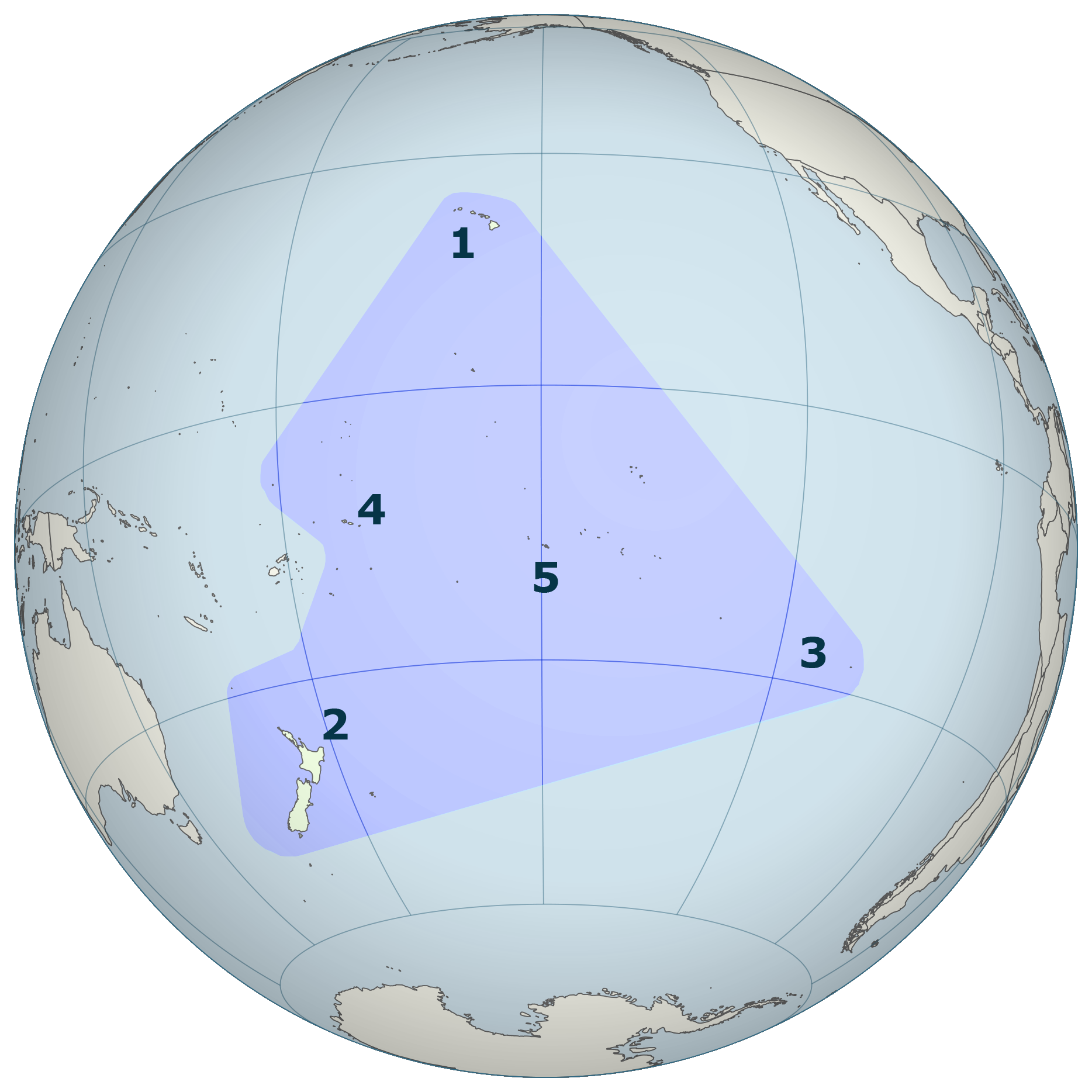 Polynesian triangle stretching from New Zealand in the south to Easter Island in the east and Hawaii in the north. This is a modification of File:French Polynesia (orthographic projection, yellowblue).svg. Numbers: The three corners of the Polynesian Triangle: 1: Hawai‘i, United States; 2: New Zealand; 3: Easter Island, Chile; Other island groups: 4: Samoa; 5: Tahiti, French Polynesia.